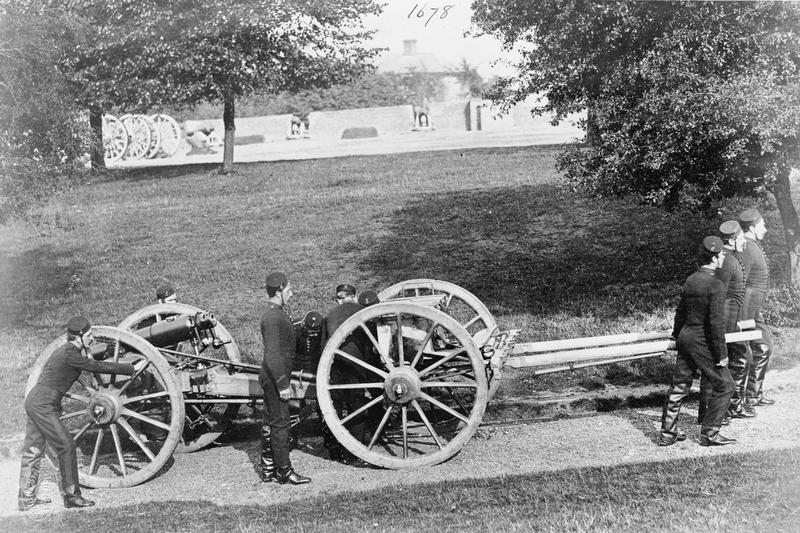 The Royal Artillery in the Pre-wwi Period Gun drill with breech loading ordnance. The gunners bear numbers on their hats to identify their respective duties as they handle this 12 pounder gun. Woolwich.